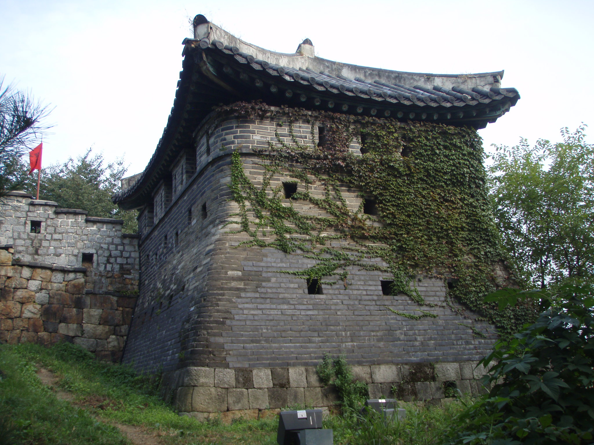 Namporu Suwon Hwaseong Fortress